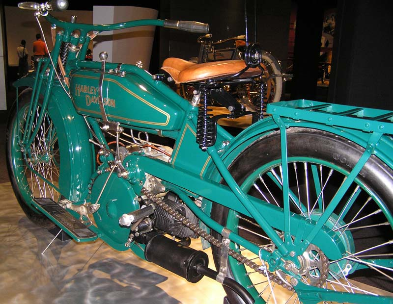 1919 Harley-Davidson Model W Sport Twin - The Art of the Motorcycle - Memphis. 36 cu-in, bore x stroke 2-3/4 x 3 in. Power: 6 hp. Top speed: 50 mph (80 km/h). The Otis Chandler Museum of Transportation and Wildlife, Oxhard, California.